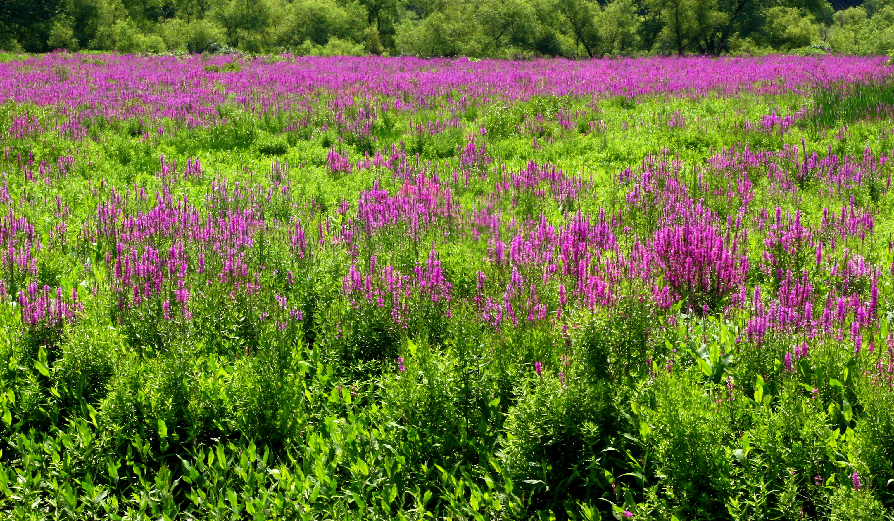 Flowering purple loosestrife (Lythrum salicaria), Concord, Massachusetts, USA